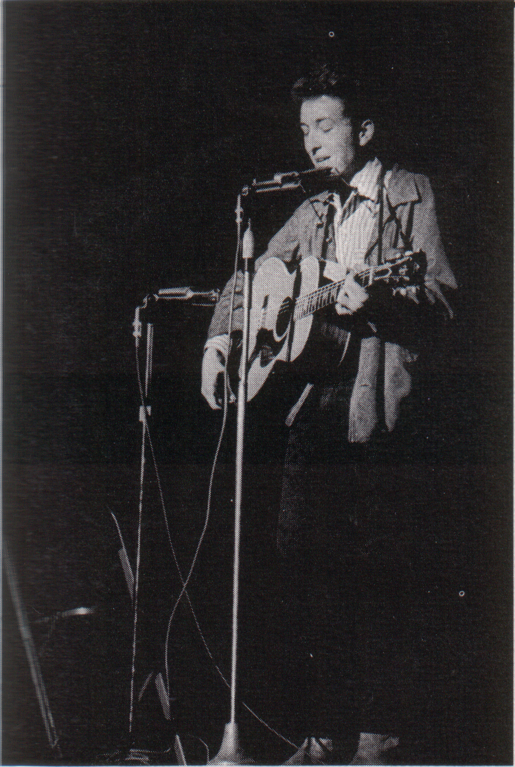 Bob Dylan performing at St. Lawrence University in New York.